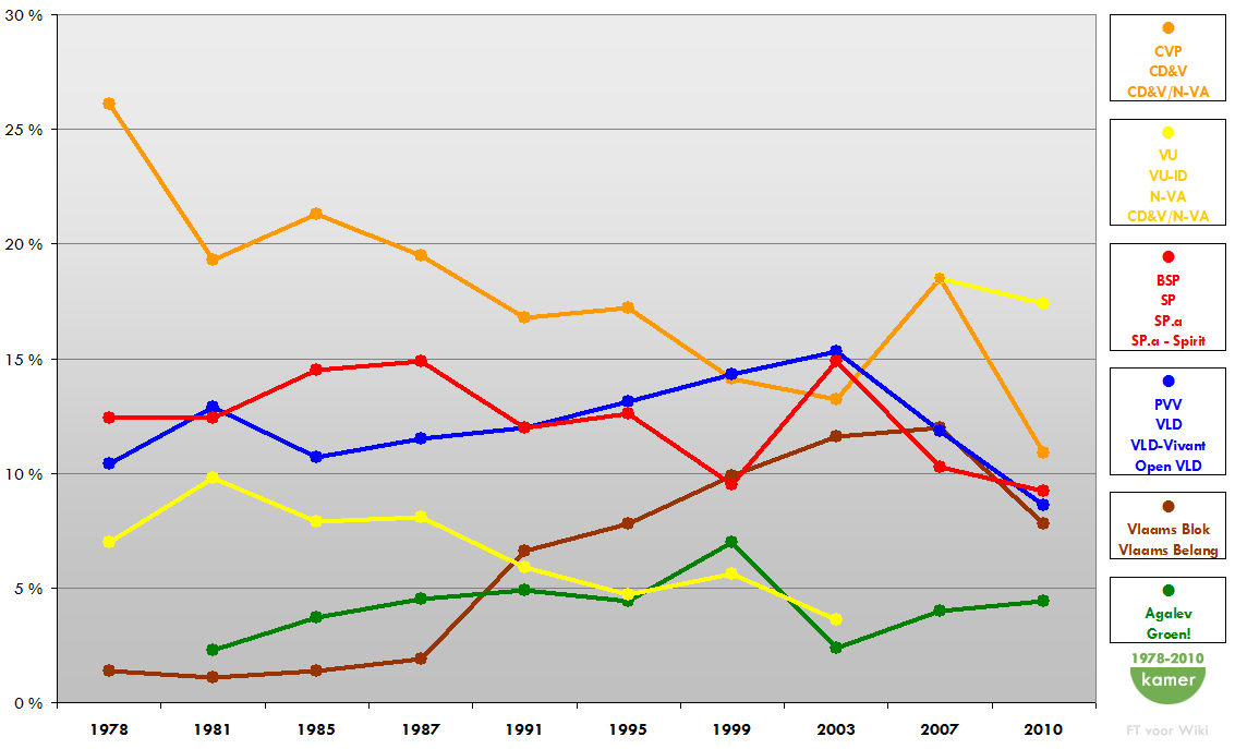 A graphical representation of the six biggest Flemish political parties and their results for the House of Representatives (Kamer). From 1978 to 2010, in percentages for the complete 'Kingdom'.